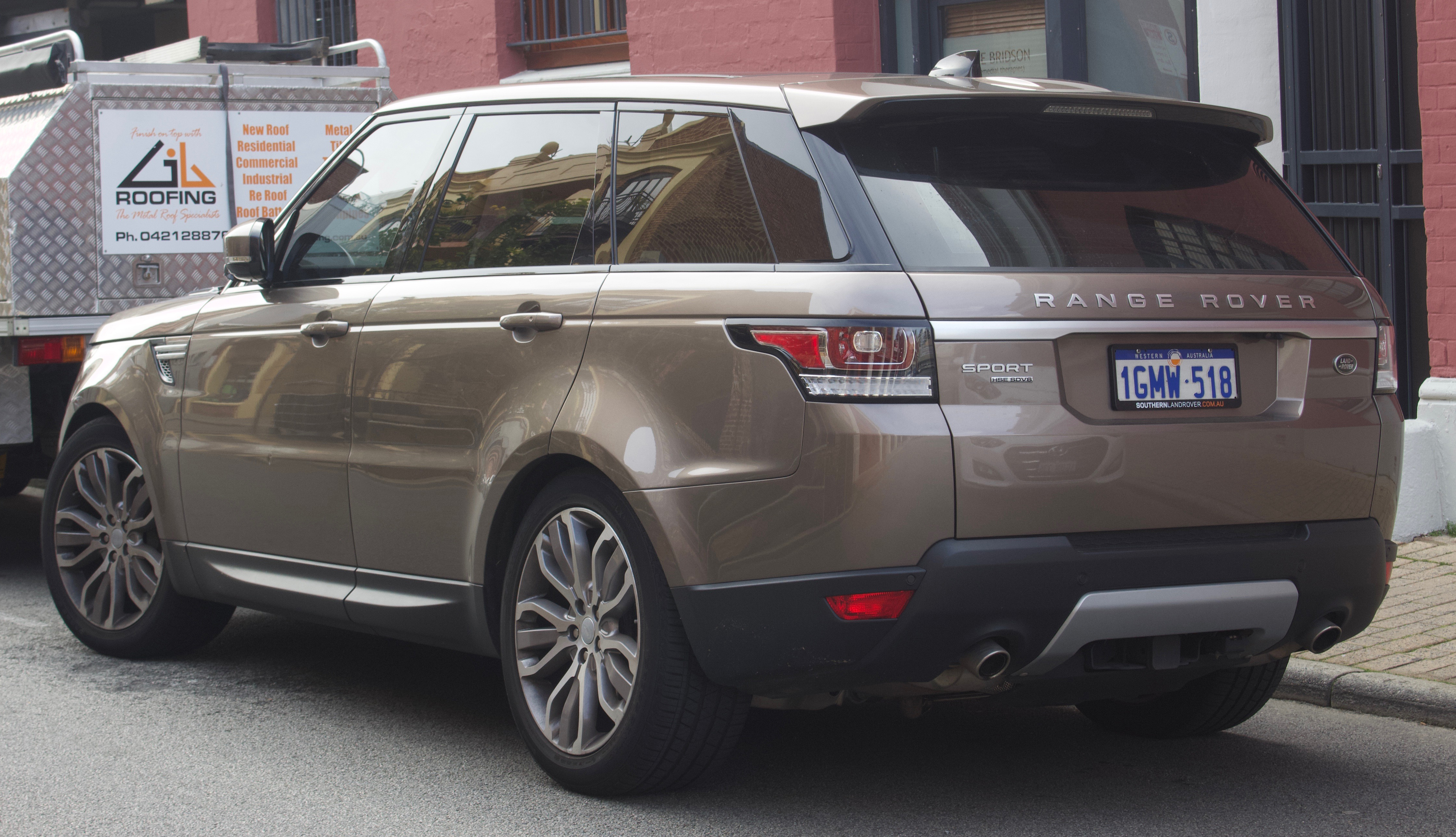 2017 Land Rover Range Rover (L494 MY16.5) HSE SDV6 wagon. Photographed in Fremantle, Western Australia, Australia.